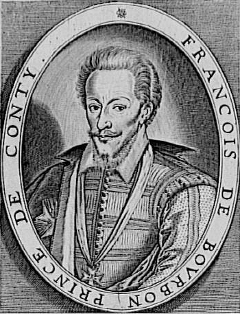 Contemporary portrait of François de Bourbon, Prince of Conti; châteaux de Versailles et de Trianon